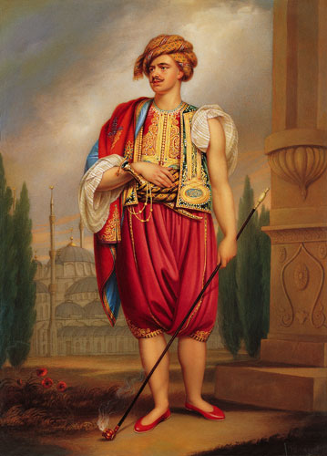 Portrait of Thomas Hope in Turkish Costume; enamel on copper, 29 x 21 cm.